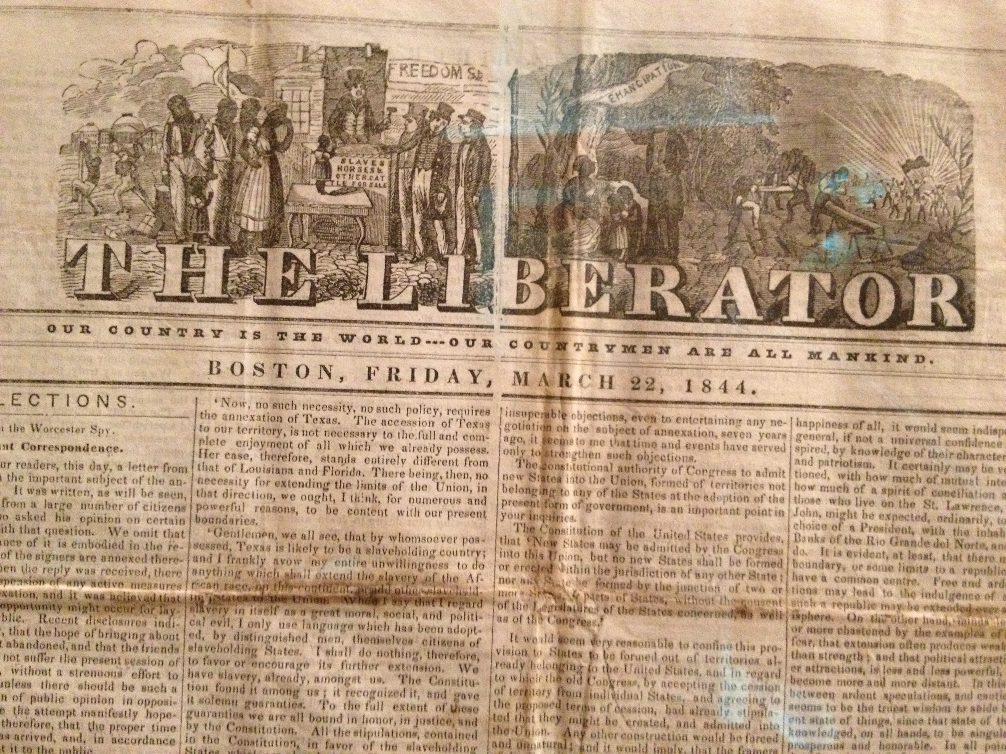 Close-up of The Liberator exhibit at the National Underground Railroad Freedom Center